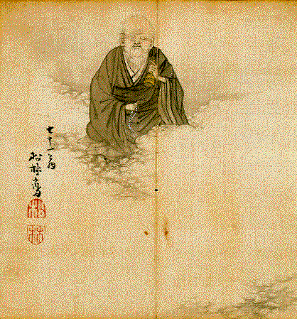 A depiction of Jinshu Fuke (Puhua, etc.) from an album cover of musician John Singer, c. 2001. Featured at .